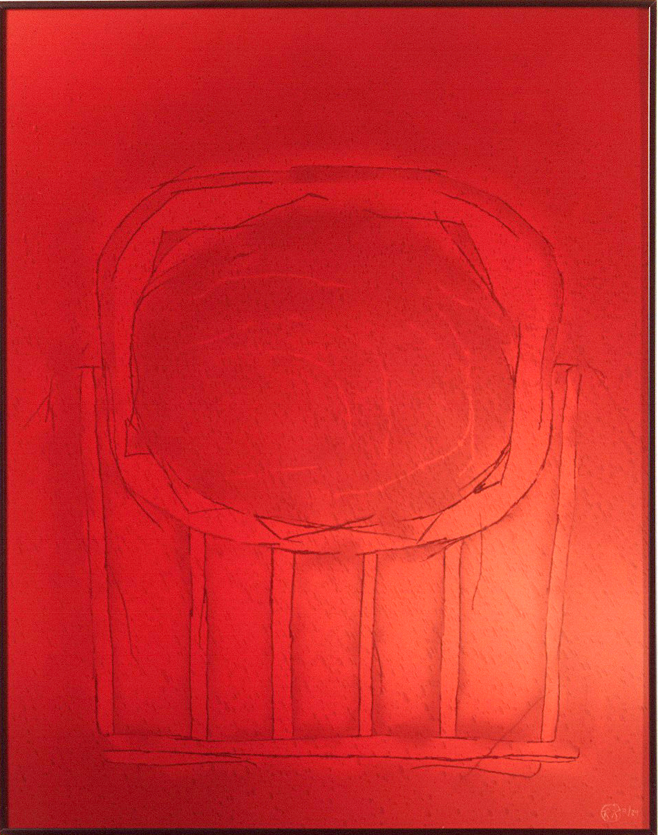 "Berkeley Venus" — by Robert Kehlmann (1984). Musèe des Arts Decoratifs de la Ville de Lausanne, Switzerland. Sandblasted glass brazed with copper and brass.